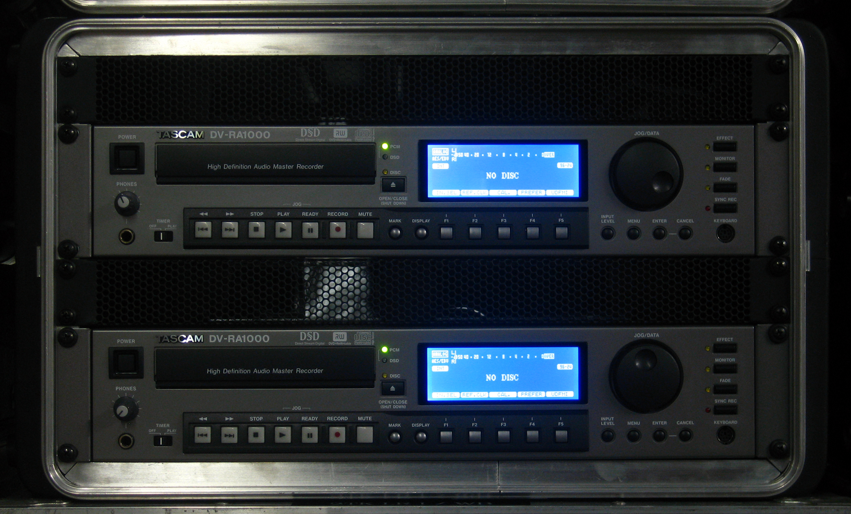 Dual ASL Recorders TASCAM DV-RA1000